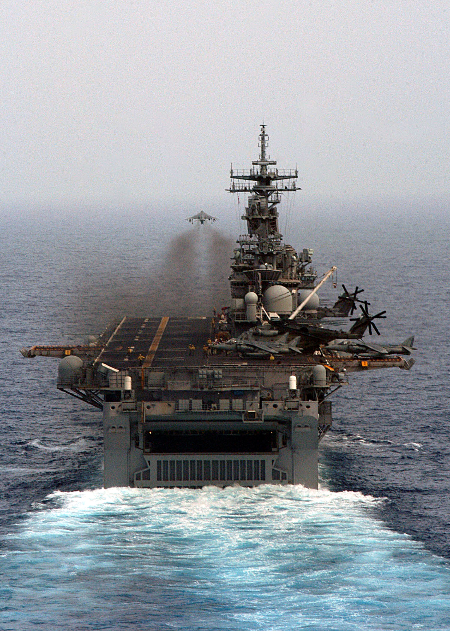 Mediterranean Sea (April 19, 2005) – A U.S. Marine Corps AV-8B Harrier launches from the flight deck of the amphibious assault ship USS Kearsarge (LHD 3) during flight operations in the Mediterranean Sea. Kearsarge and embarked 26th Marine Expeditionary Unit are on a regularly scheduled deployment in support of the Global War on Terrorism. U.S. Navy photo by Photographer's Mate Airman Sarah E. Ard (RELEASED)